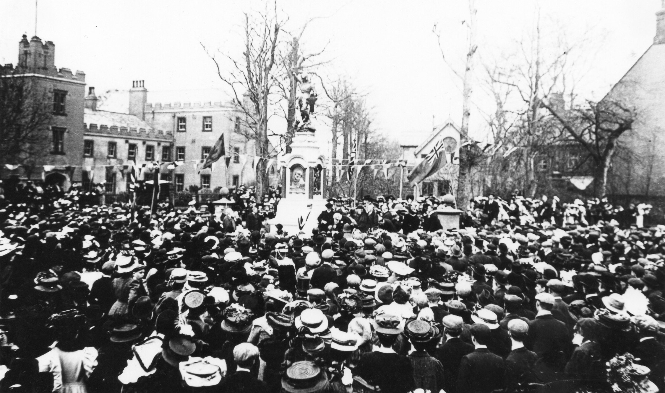 Copy of Photo Circa 1909